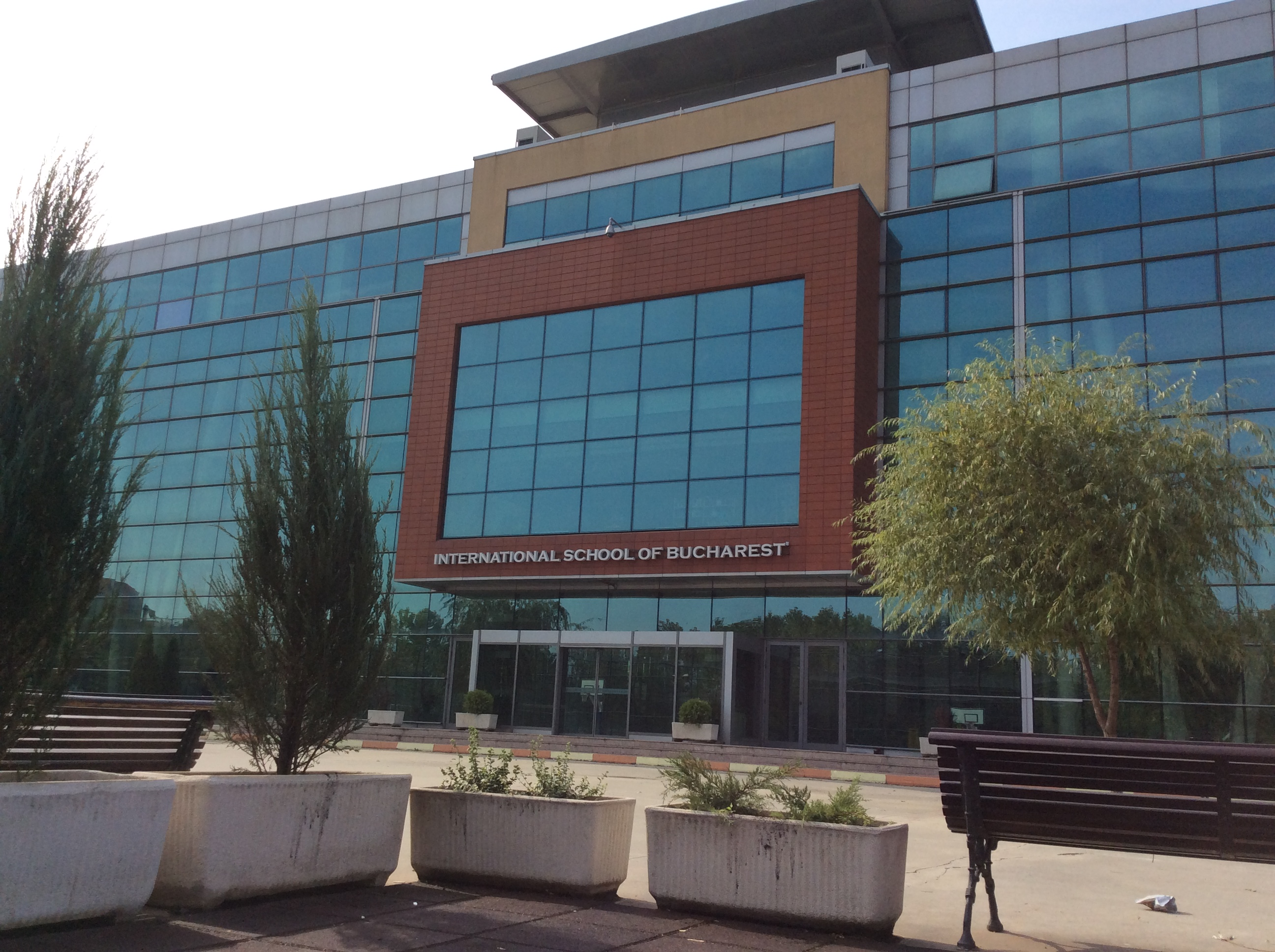 Main Entrance